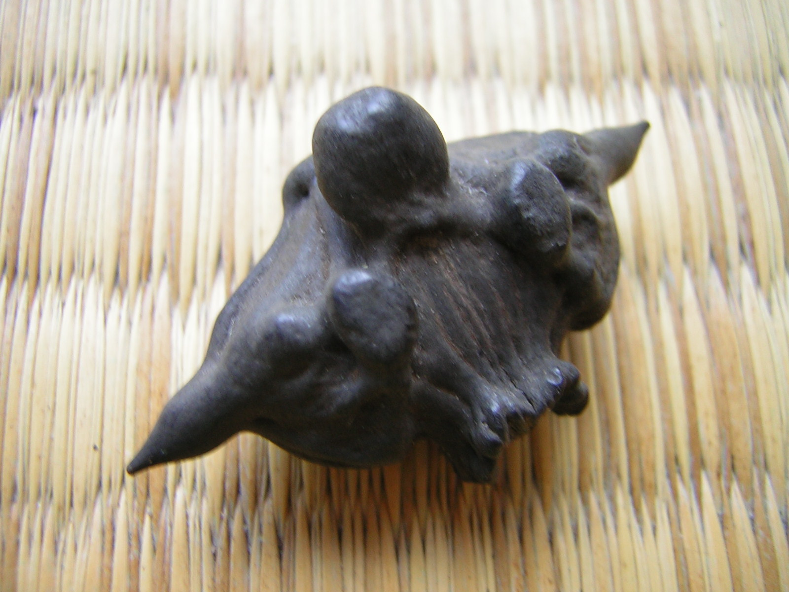 Nut of water caltrop